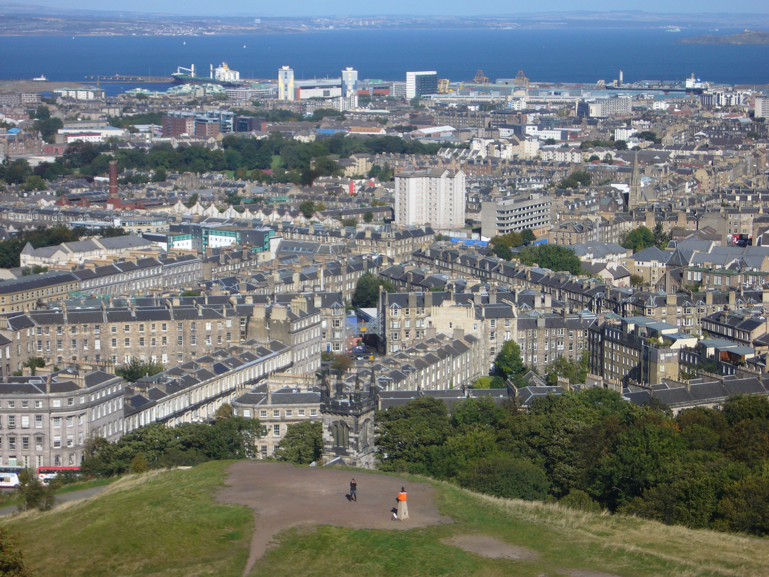 The Pilrig area from the Calton Hill, Edinburgh. Pilrig lies immediately behind the high-rise Pilrig Flats seen just right of centre. The leafy green area to the left is a park, originally the grounds of Pilrig House. Pilrig Church is to the right of the grey concrete multi-storey car park on Leith Walk which is due to be demolished.